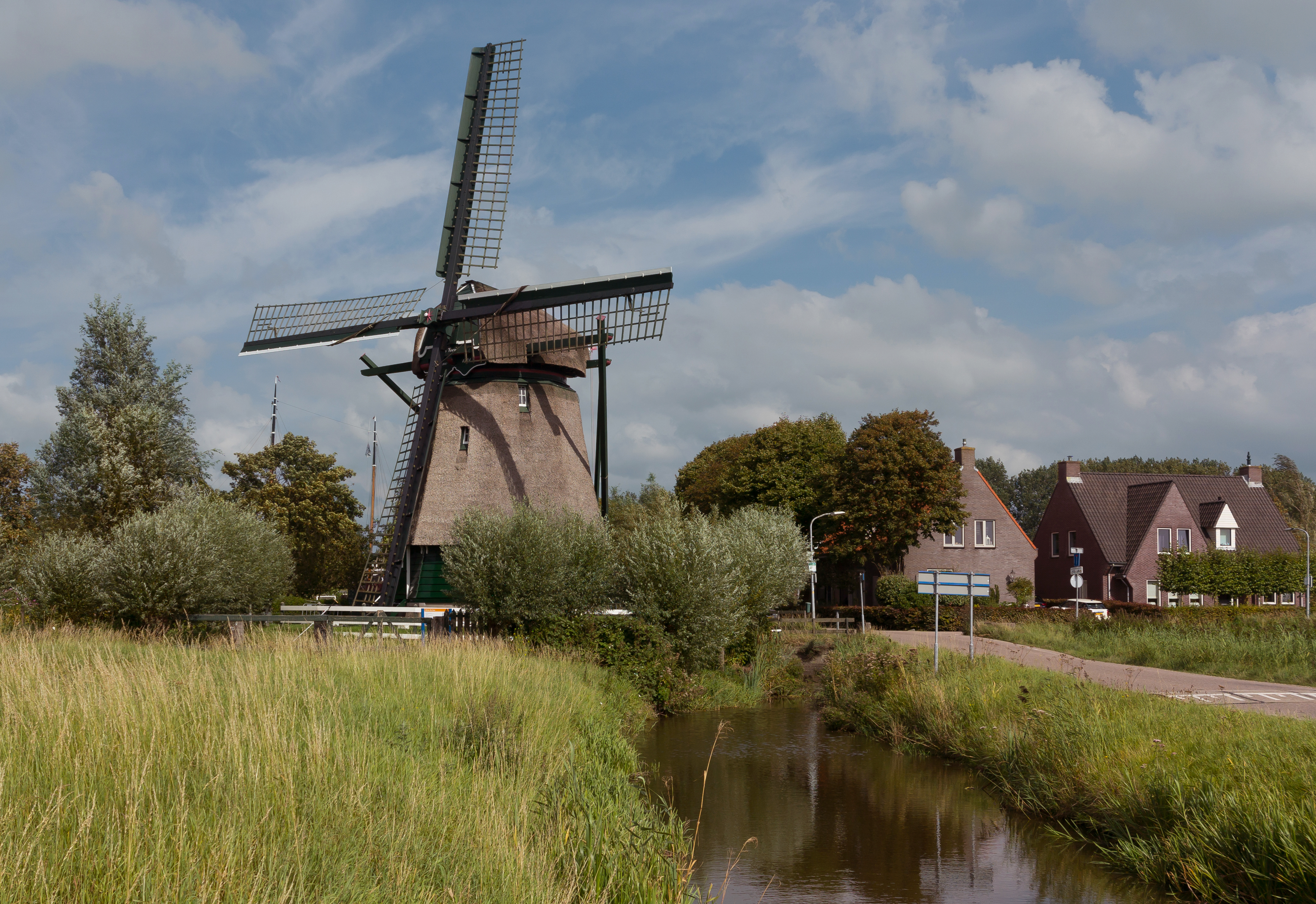 Haarlem-Penningsveer, windmill: molen de Veer